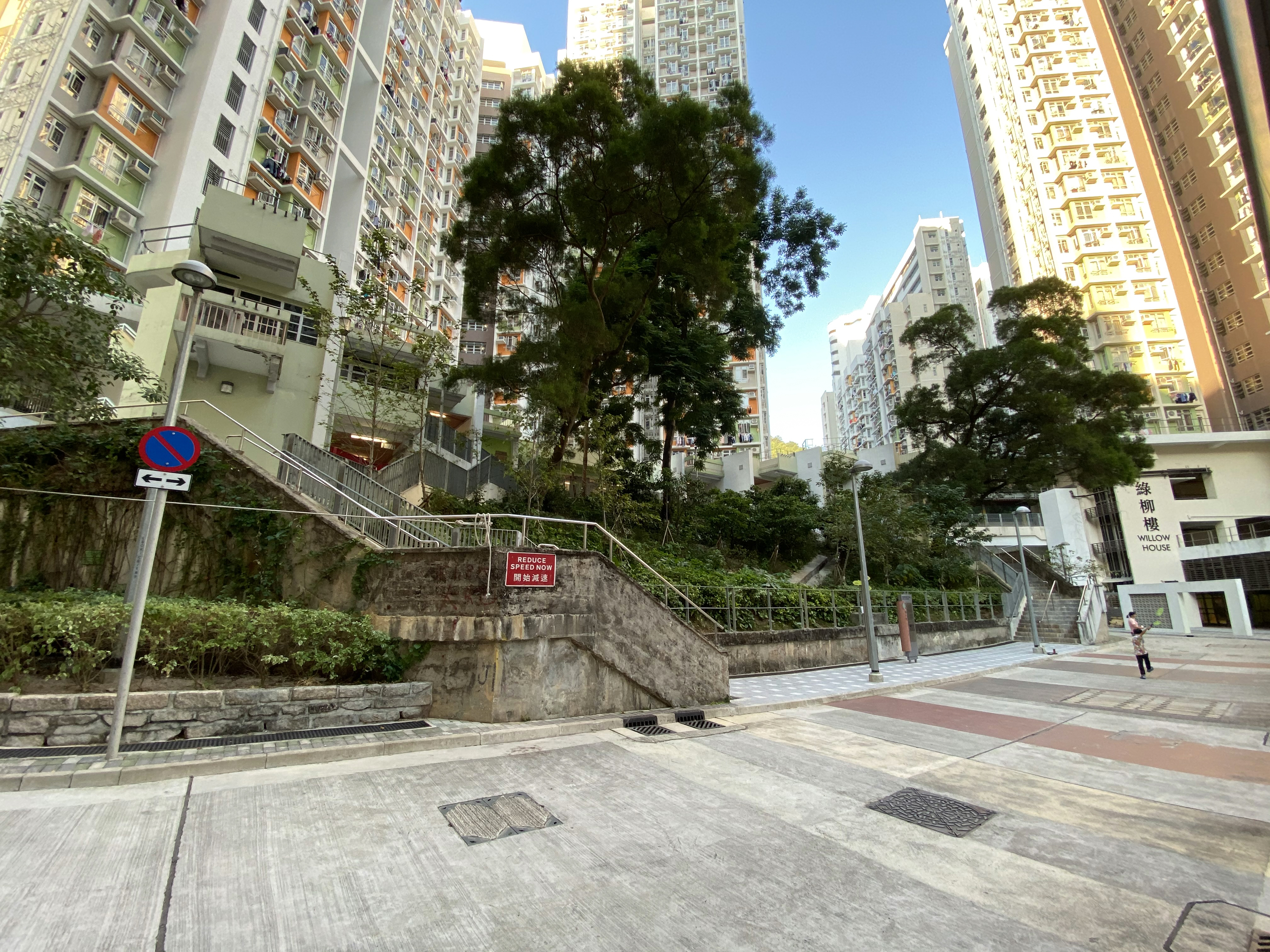 So Uk Estate Former Maple House